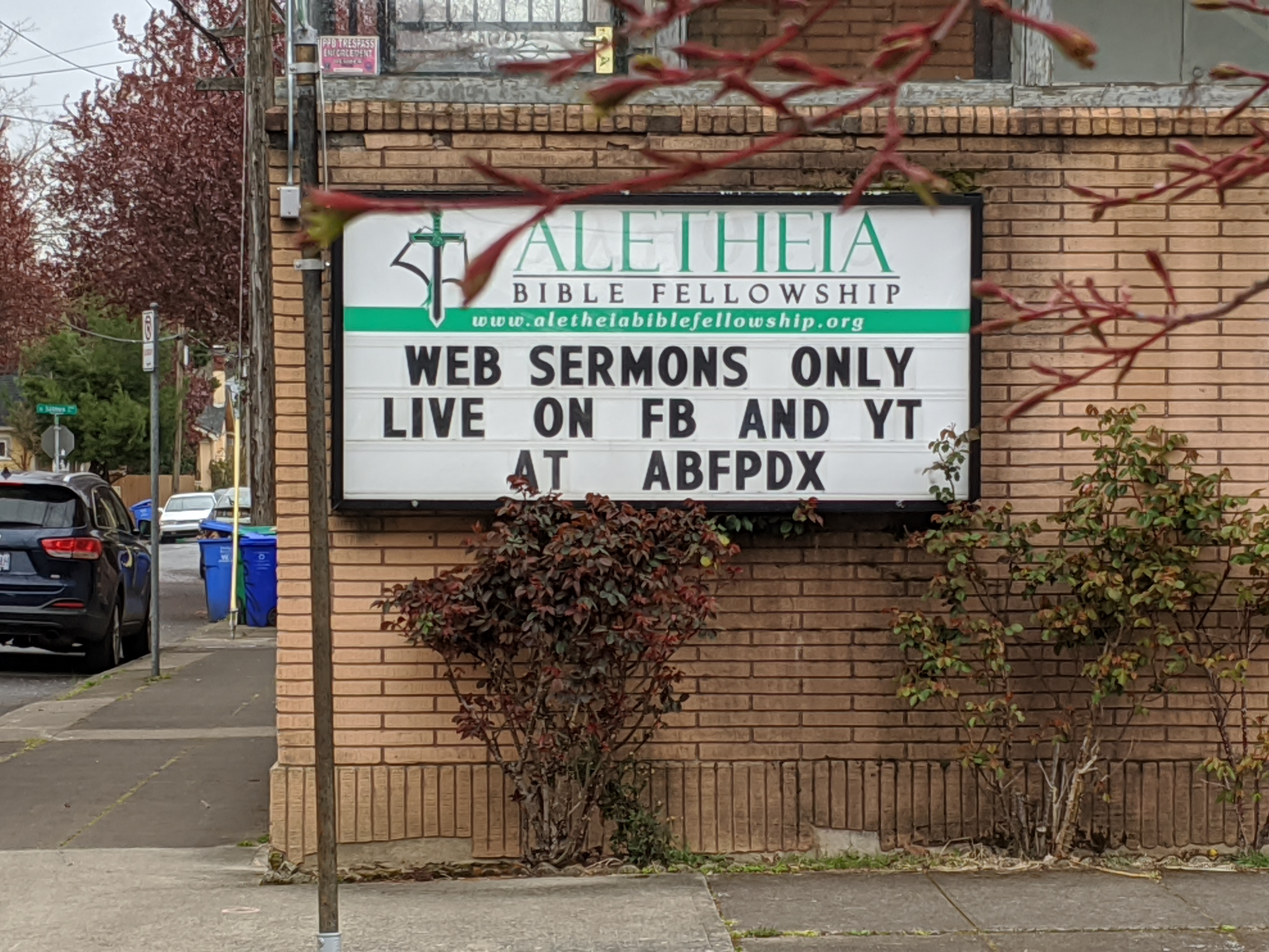 Sign for church with channel letters stating WEB SERMONS ONLY LIVE ON FB AND YT AT ABFPDX